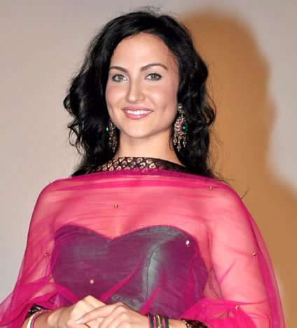 Elli Avram at the first look launch of 'Mickey Virus'